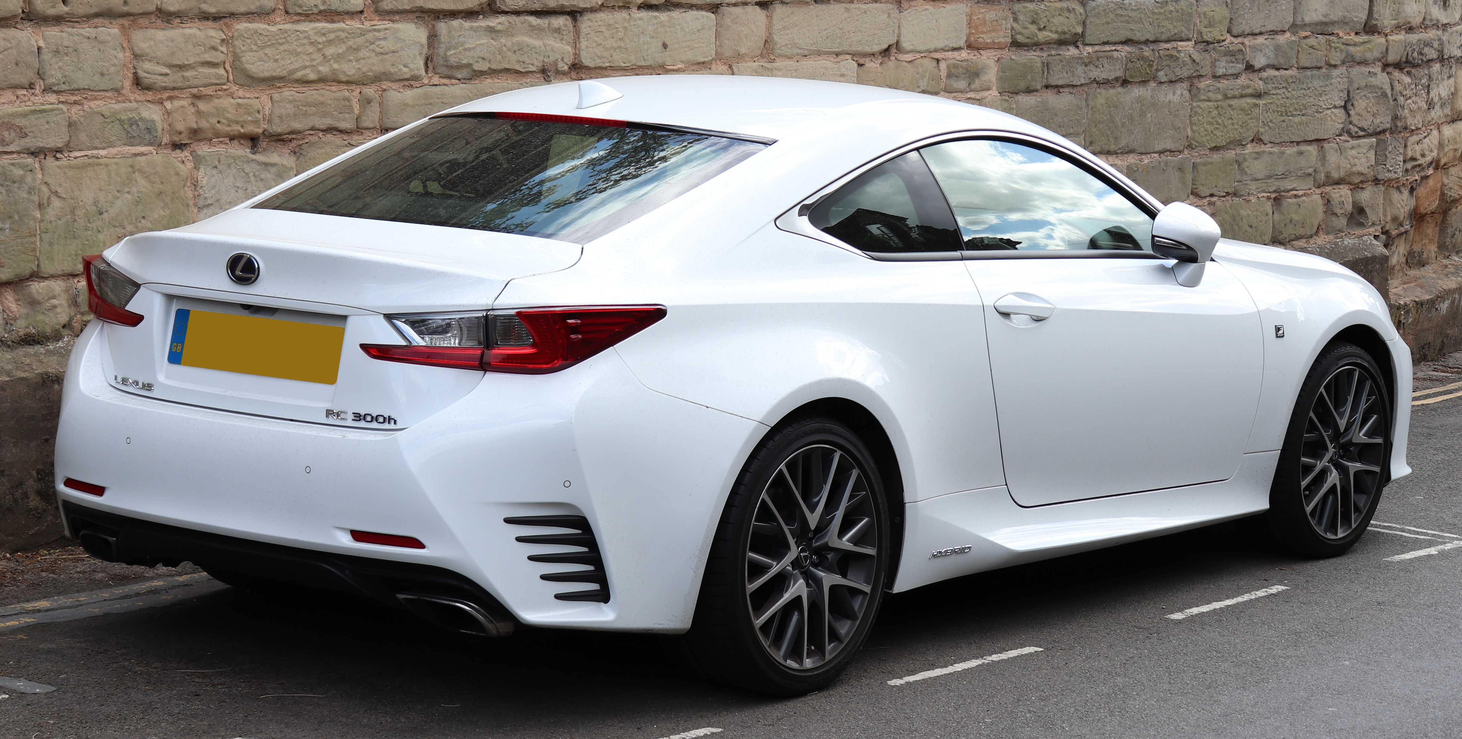 2016 Lexus RC 300h F Sport CVT 2.5 Rear Taken in Warwick